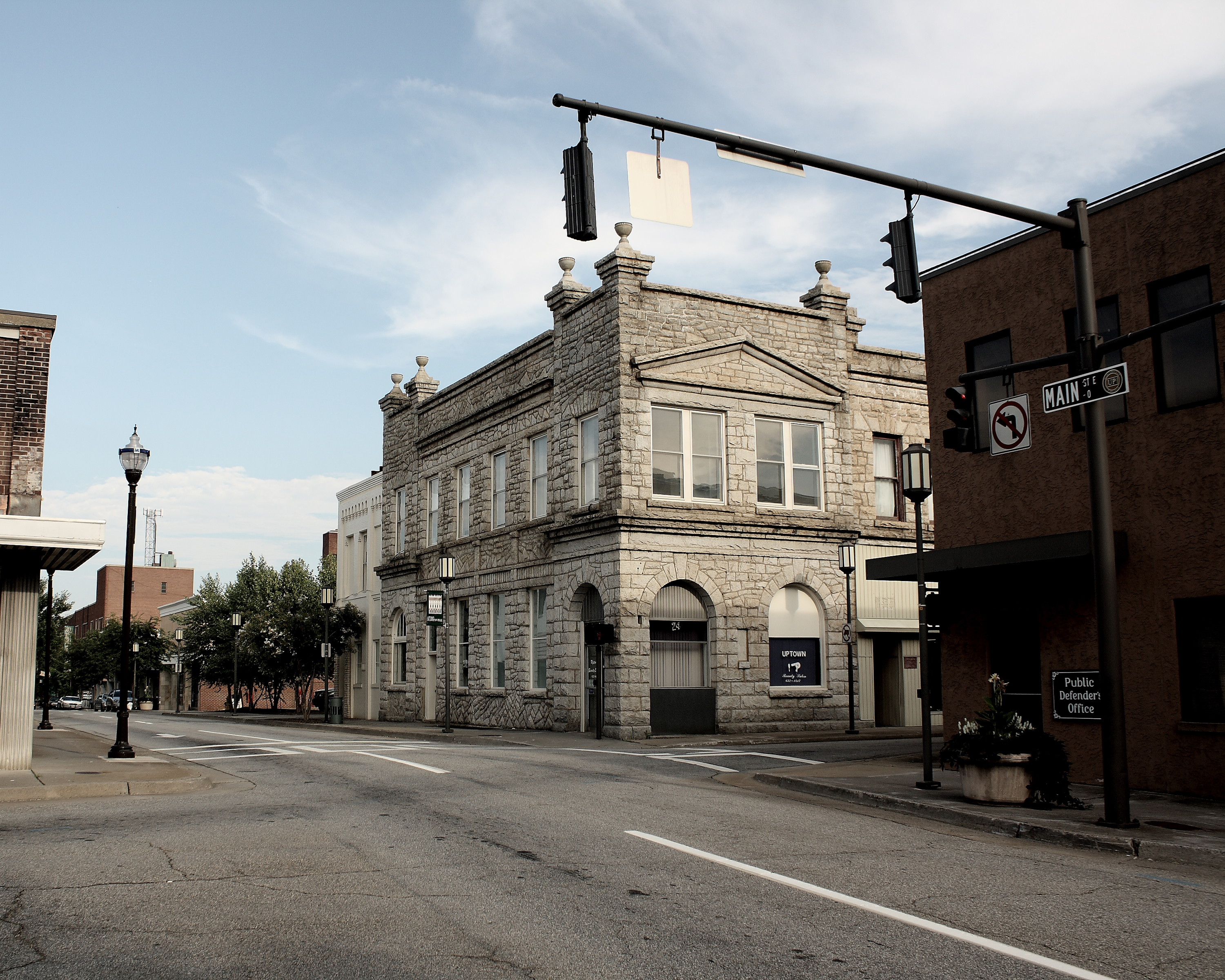 A view of Main Street in uptown Martinsville, Virginia. I, David "Wolf" Reynolds (Wikipedia User:Sleddog116), am the copyright holder of this work and hereby grant permission for Wikipedia to use this image for any purpose. The image with all Creative Commons details and original metadata can be found here: [1]